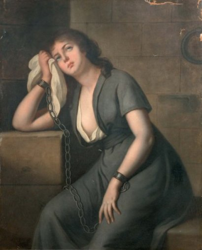 Aimée de Coigny (12 October 1769 – 17 January 1820) - unknown painter.